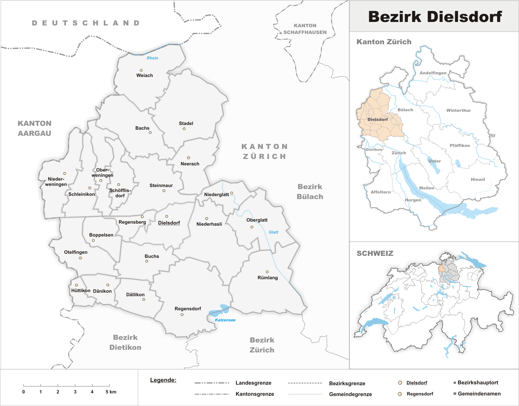 Municipalities in the district of Dielsdorf